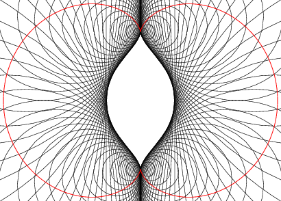 Inverse of nephroid (inverse circles of those in neph1.png)